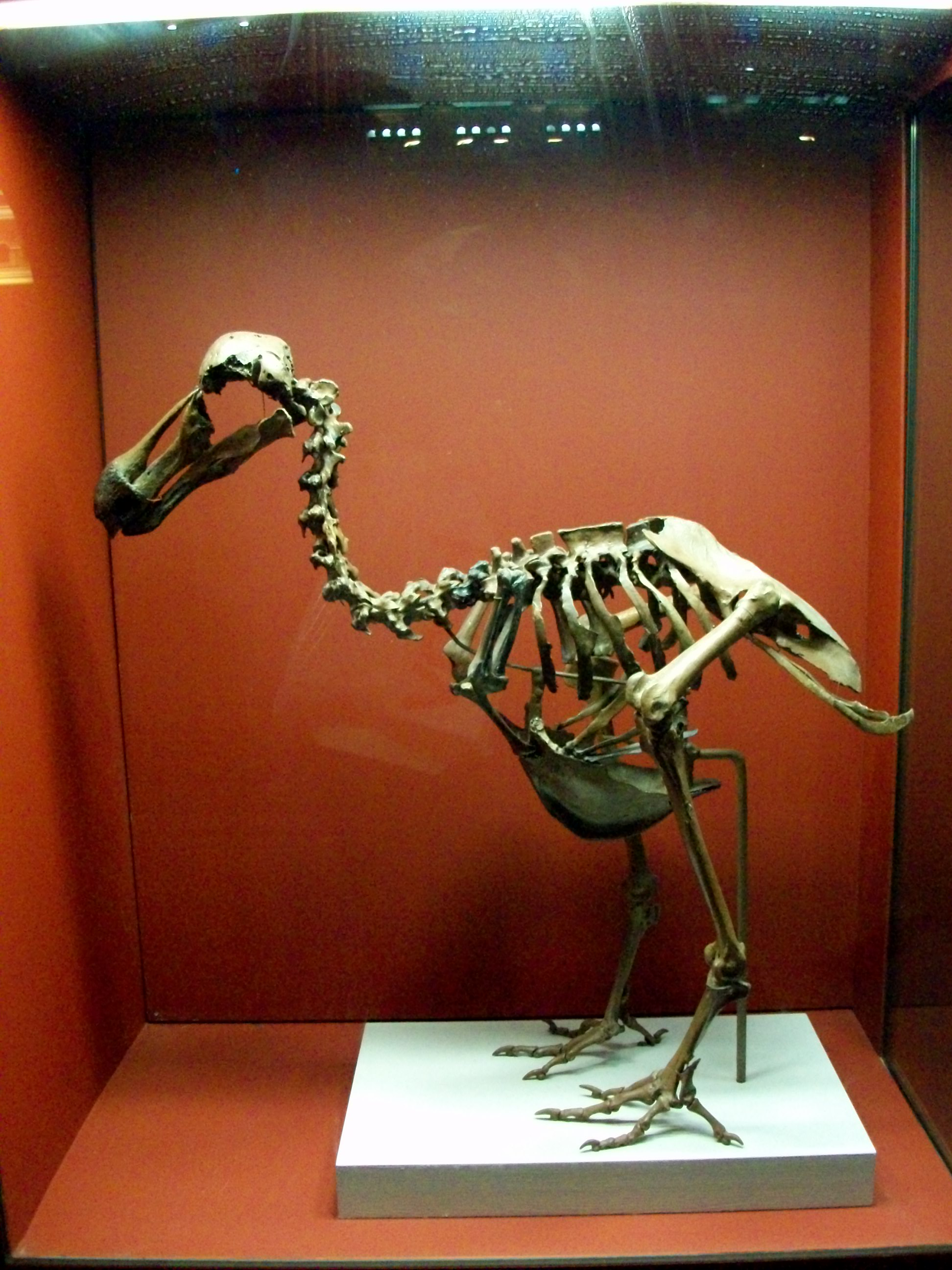 Dodo skeleton at the Natural History Museum, London